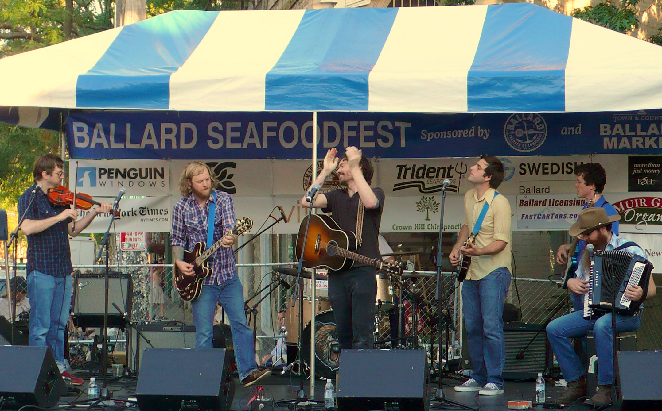 The Maldives playing at the 2010 Ballard SeafoodFest in Seattle